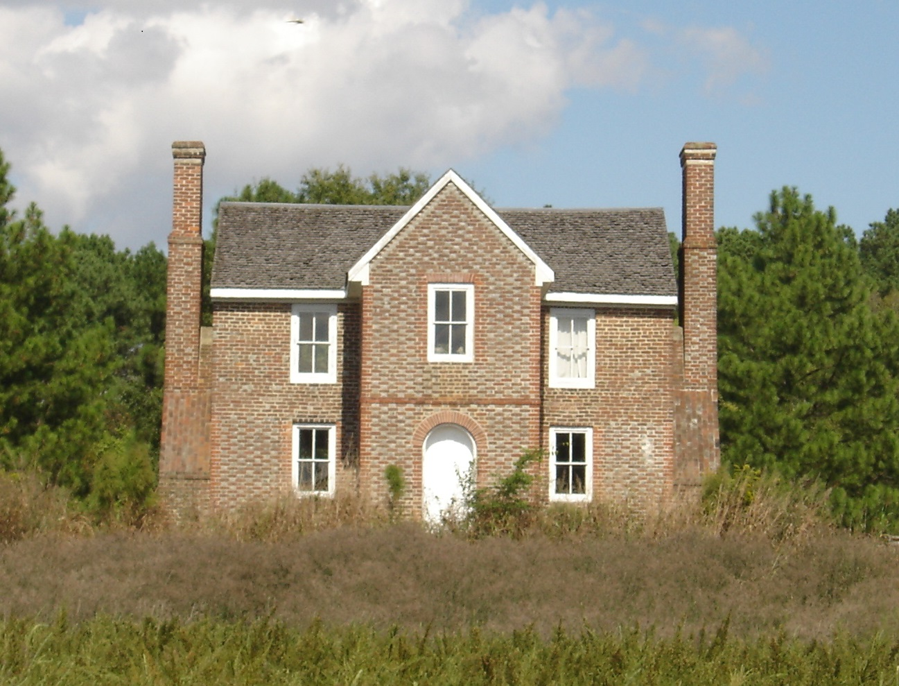 Front of the Matthew Jones House.